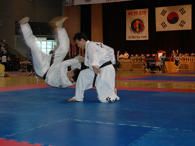 Hapkido tournament in Korea.